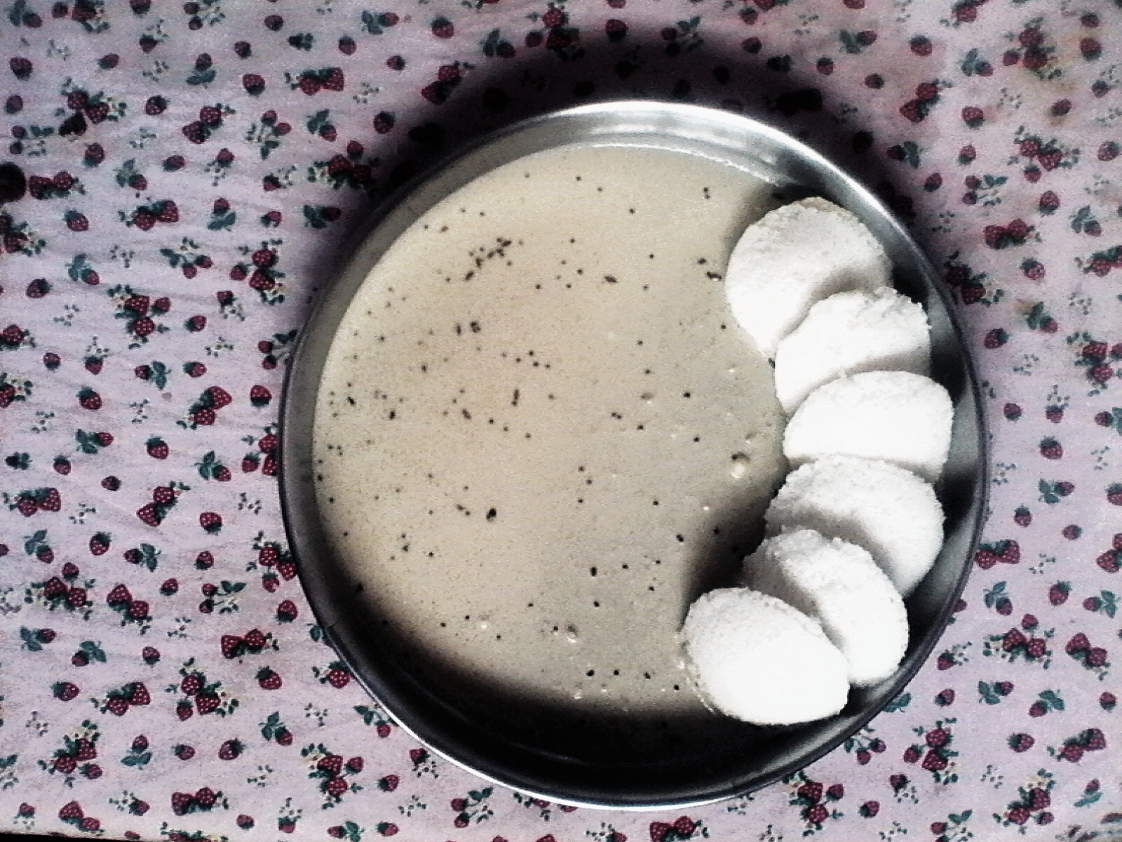 Idli & Chutnee